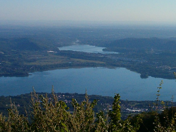 Lago di Varese (front) and Lago di Comabbio (back) with the Brabbia marsh in between at the left center. Photographed from the Campo dei Fiori picture taken by user:Idéfix august 2004